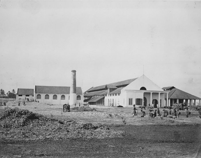 Sugar factory Tjolomadoe (Malang Djiwan)